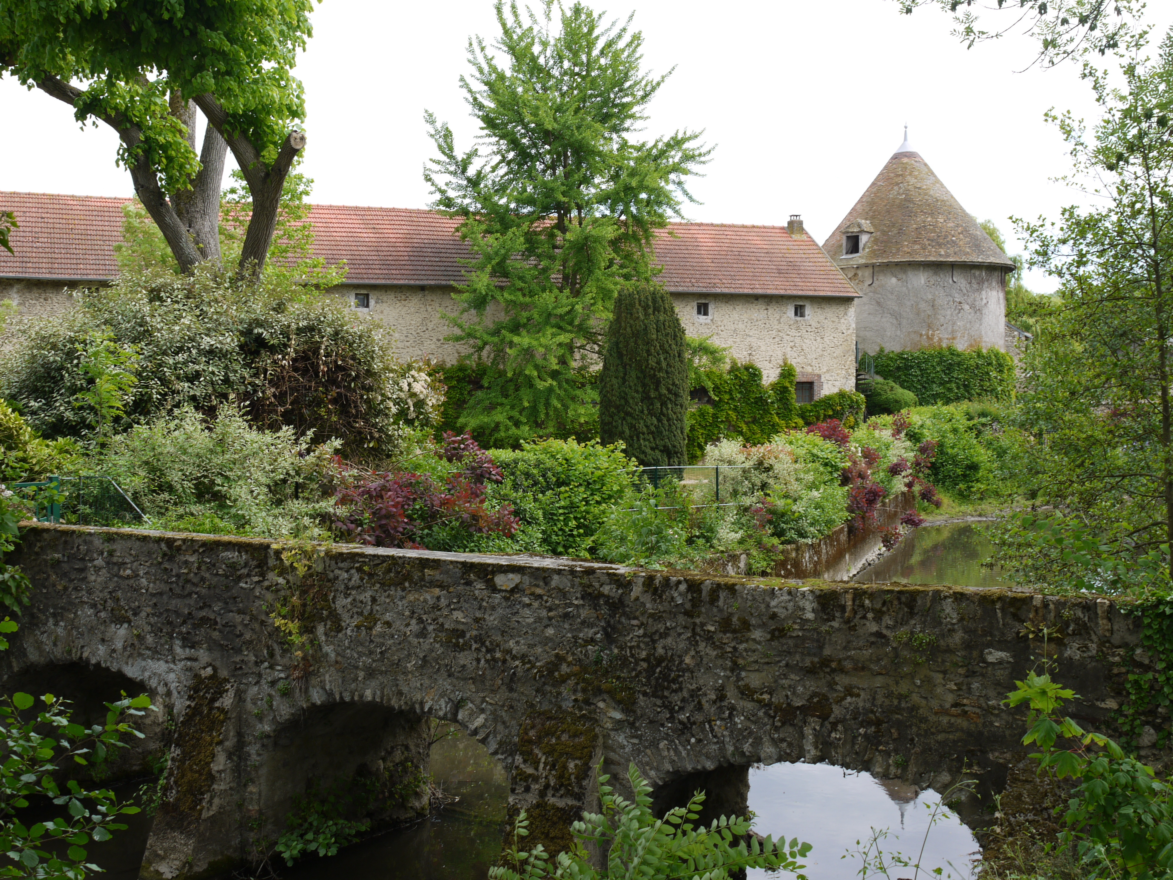 Dovecote of the ancient farm building des Lyons in Santeny, Val-de-Marne, France. The stream is the Réveillon.